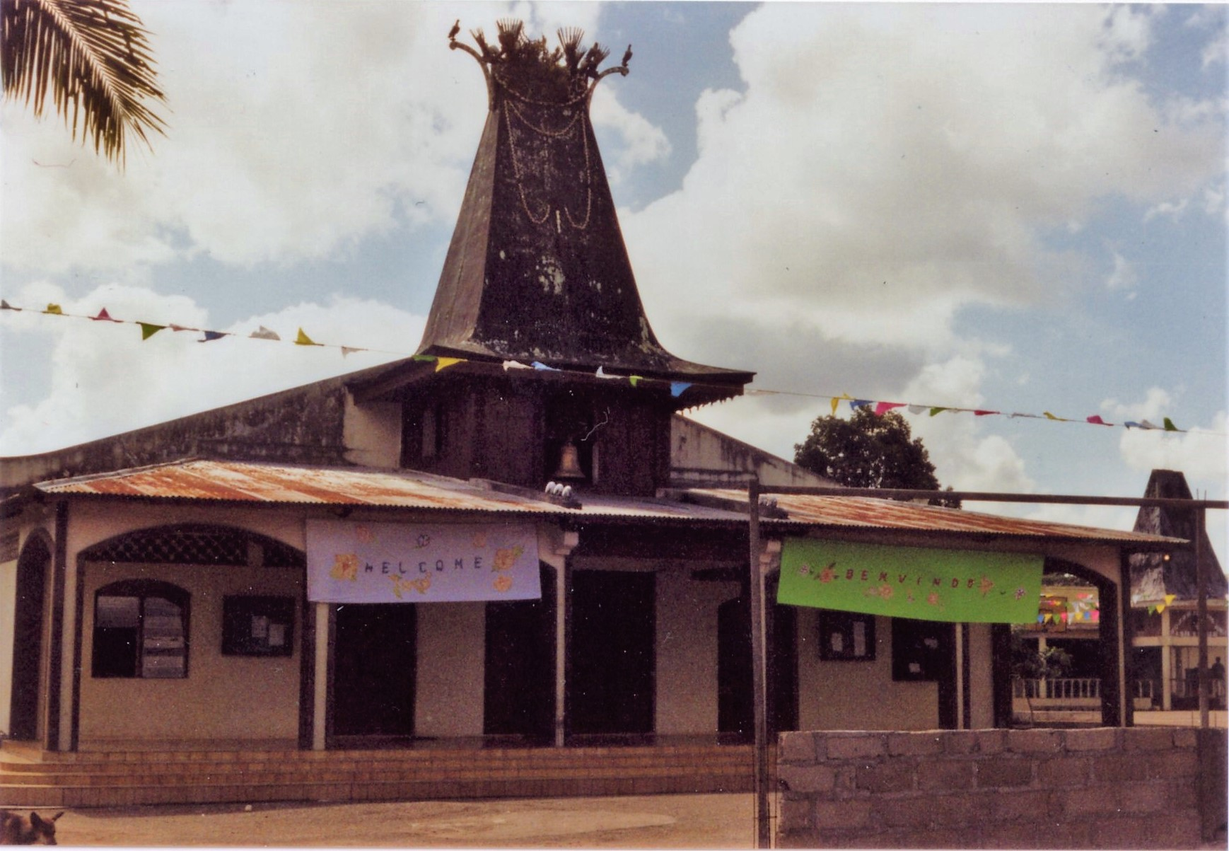 Photo by J. Patrick Fischer Catholic church of Lospalos/Timor-Leste with traditional-Timorese-styled roof on 24th June 2002.